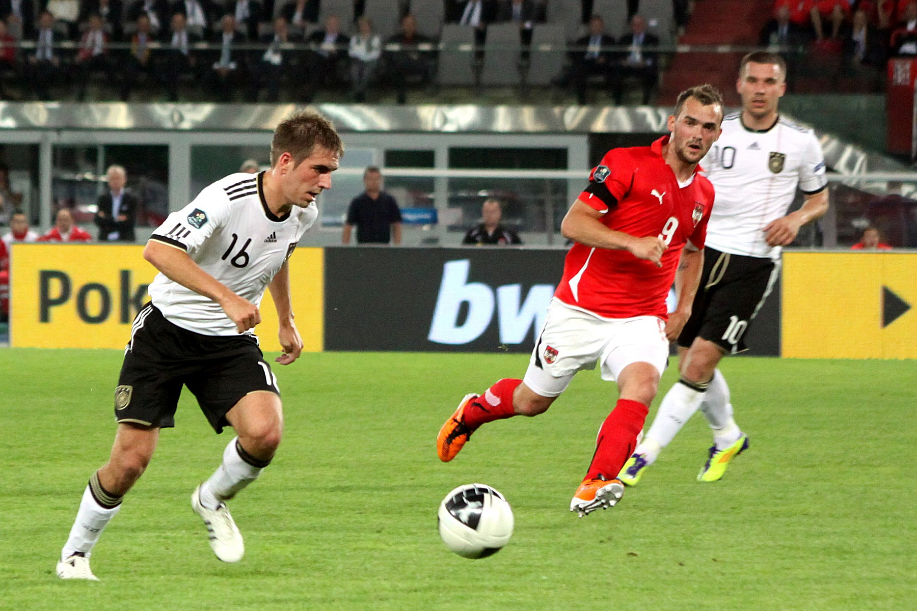 Qualifying for the UEFA Euro 2012 Austria (red shirt) vs. Germany (white Shirt) 1:2 (0:1) at 2011-06-03 in Vienna (Ernst-Happel-Stadion) — The photo shows (fron left to right): Philipp Lahm (FC Bayern München), Erwin Hoffer (1. FC Kaiserslautern), Lukas Podolski (1. FC Köln).